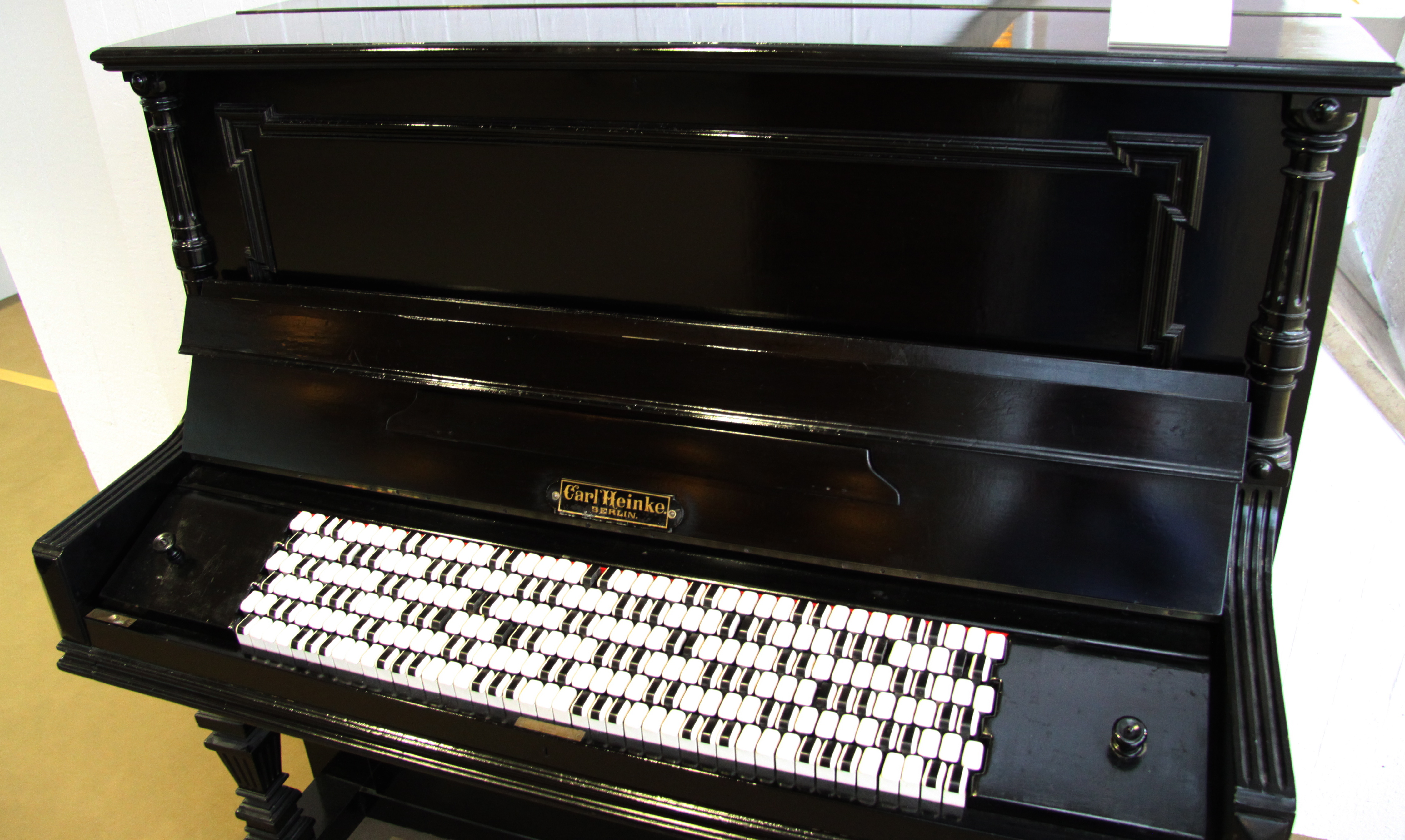 Piano with Jankó keyboard at the MIM, Berlin.